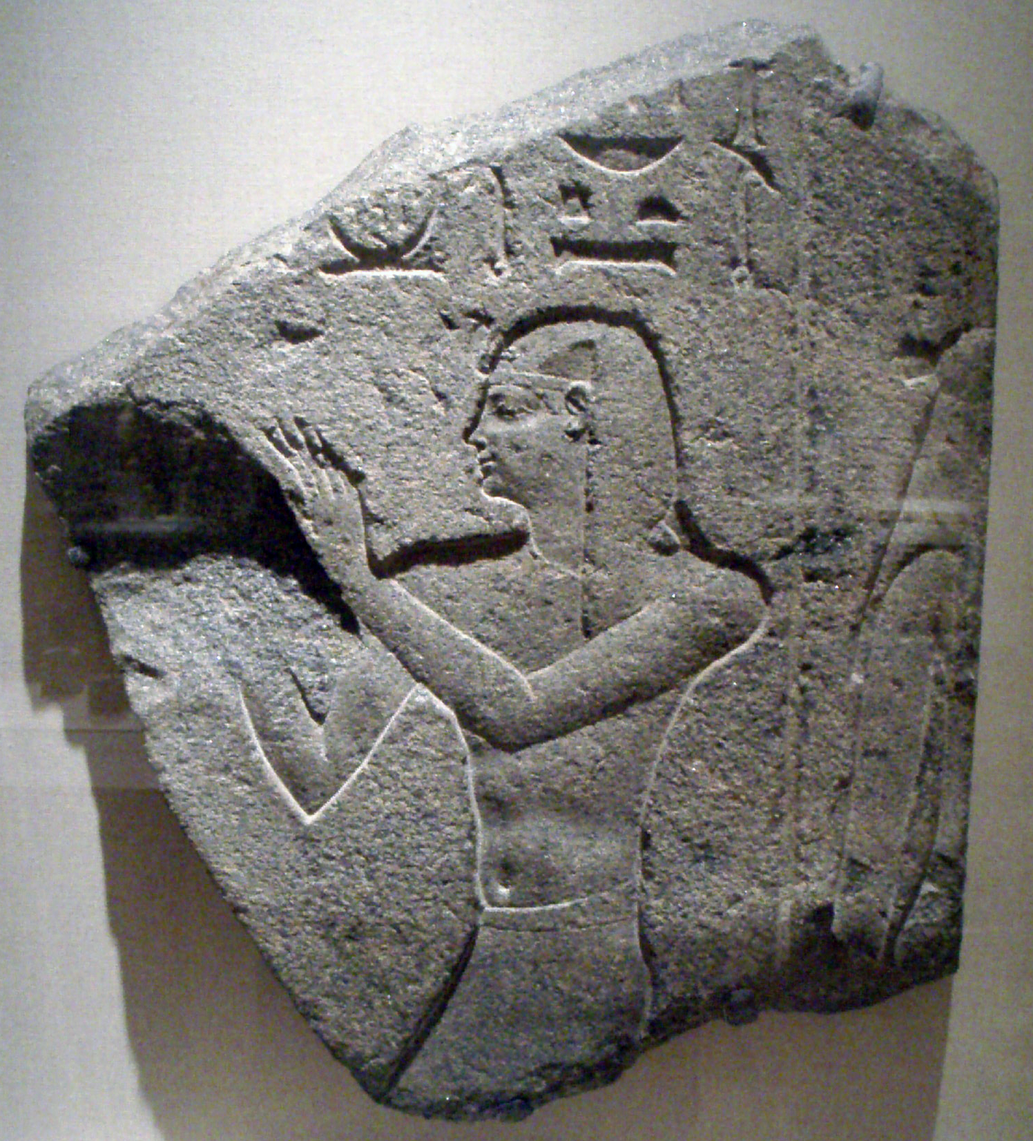 Relief of Ptolemy II "Philadelphos".